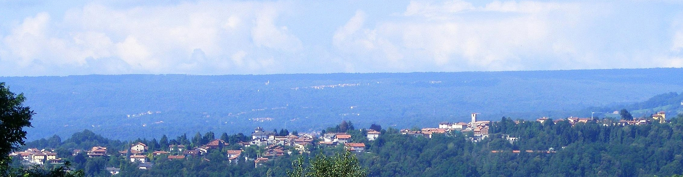 Cossila San Grato (BI, Italy) seen from Vaglio-Colma road